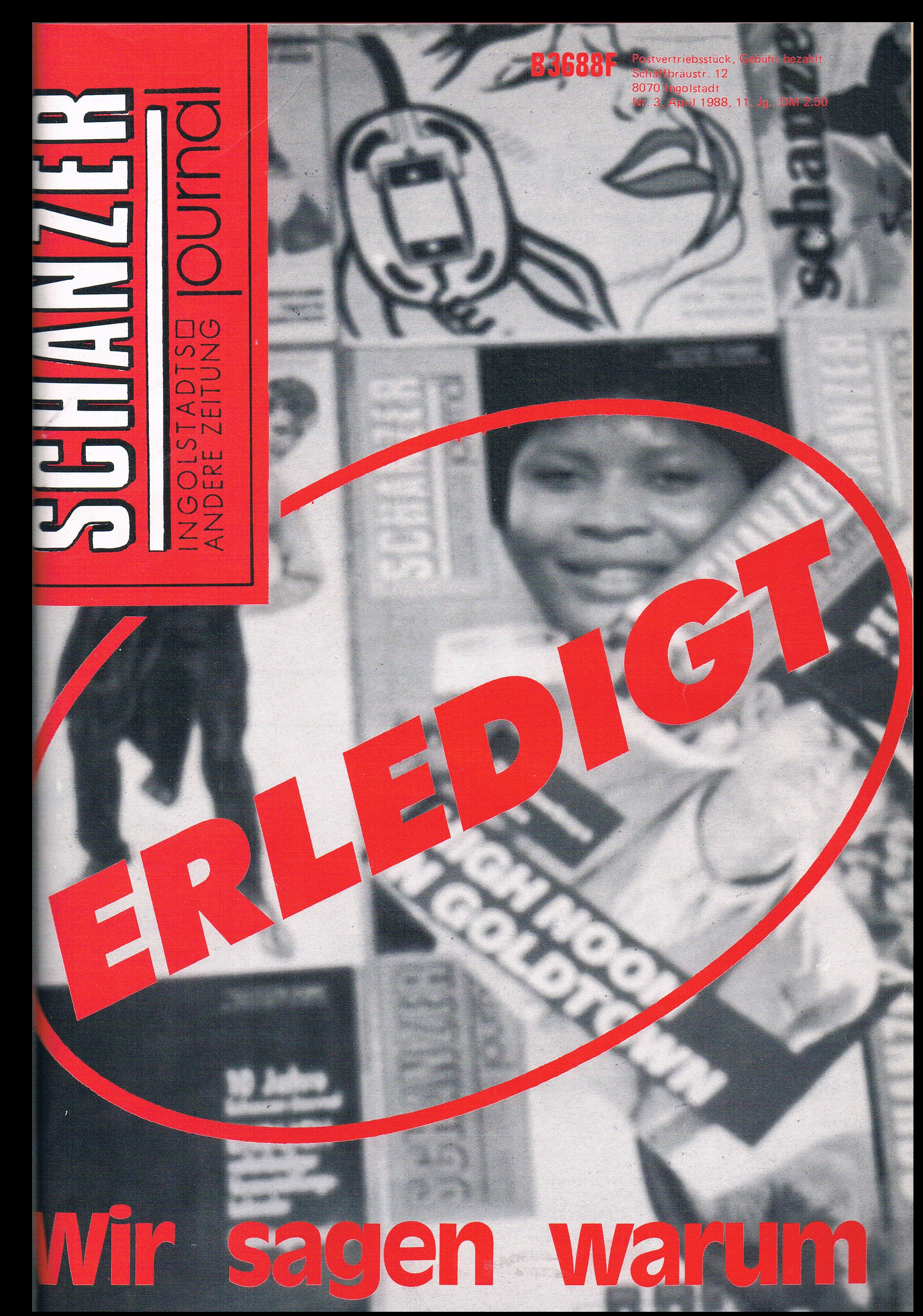 Cover page of the magazine Schanzer Journal (edition 3-1988), local magazine, established 1978, Ingolstadt (Germany)